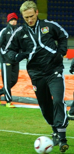 Sami Hyypiä